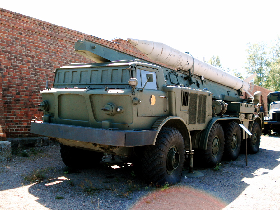 Soviet FROG-7B (Luna-M) missile system, displayed in Hämeenlinna Artillery Museum. This was a tactical weapon, with a range from 10 to 65 km and a 450 kg warhead, conventional, chemical or nuclear. Photo taken on June 18, 2006. Source: Photo by me, User:Balcer.